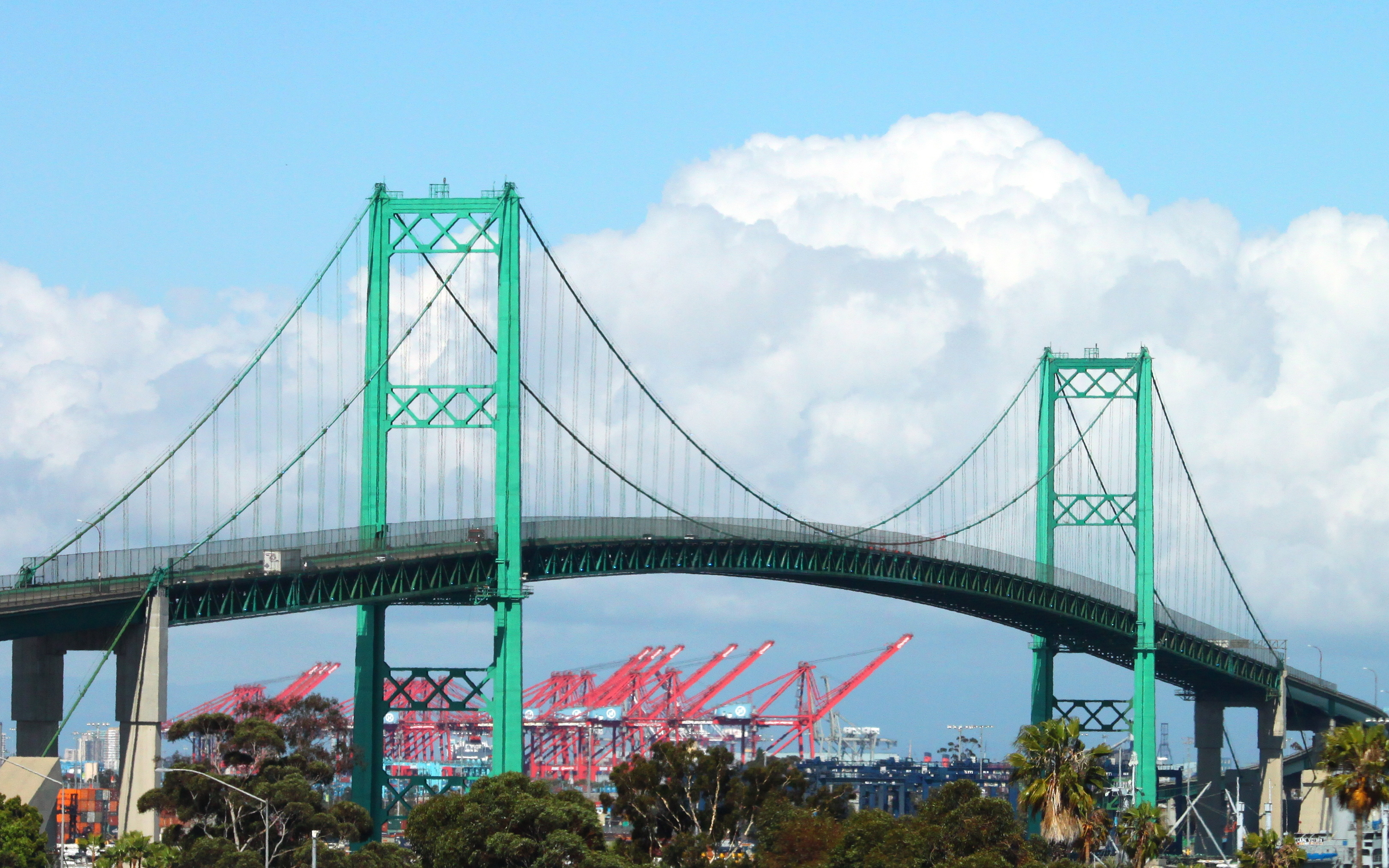 An eastbound view of the span from San Pedro